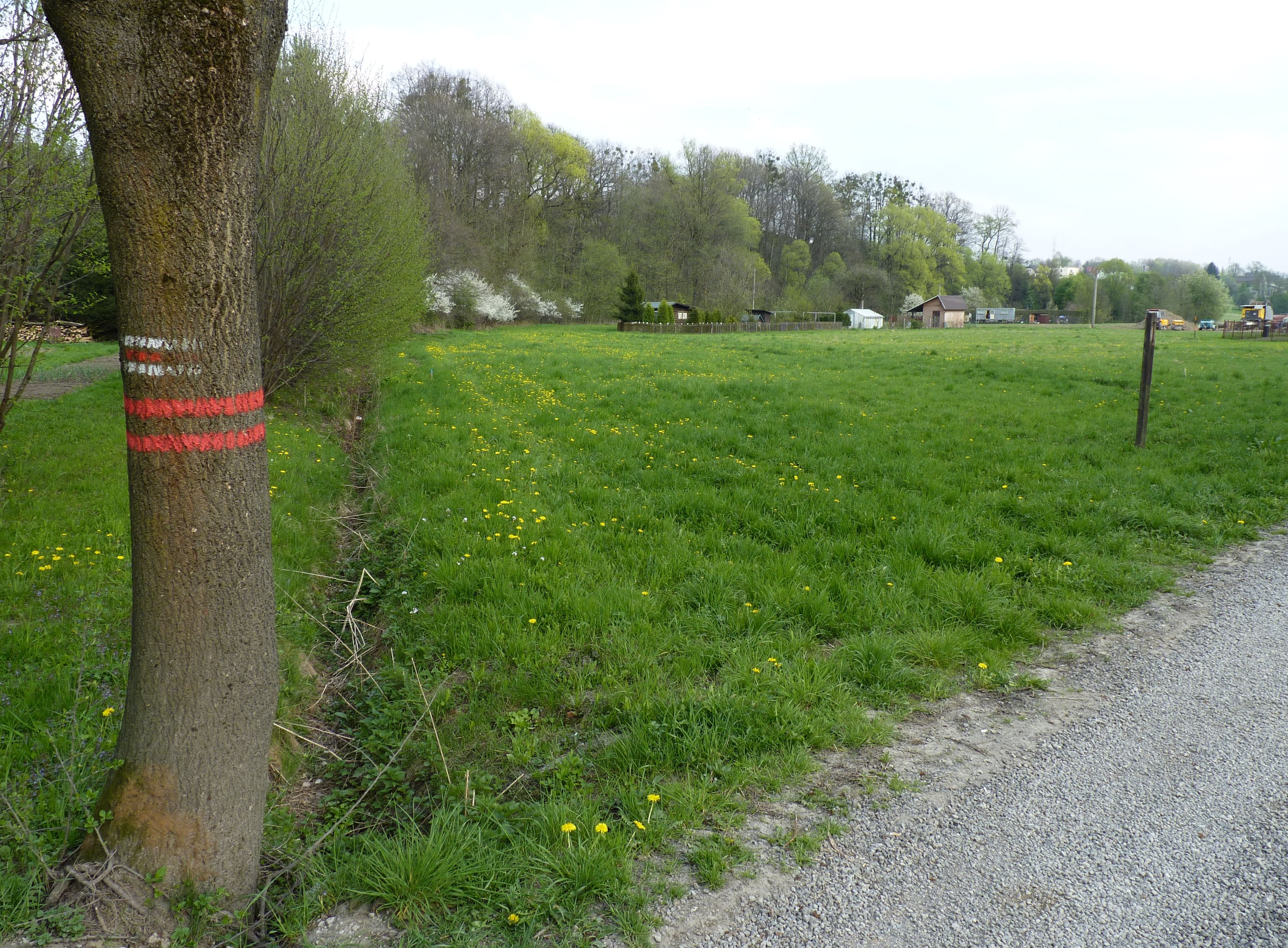 Natural monument Stará řeka. Horní Bludovice, Karviná District, Moravian-Silesian Region, Czech Republic